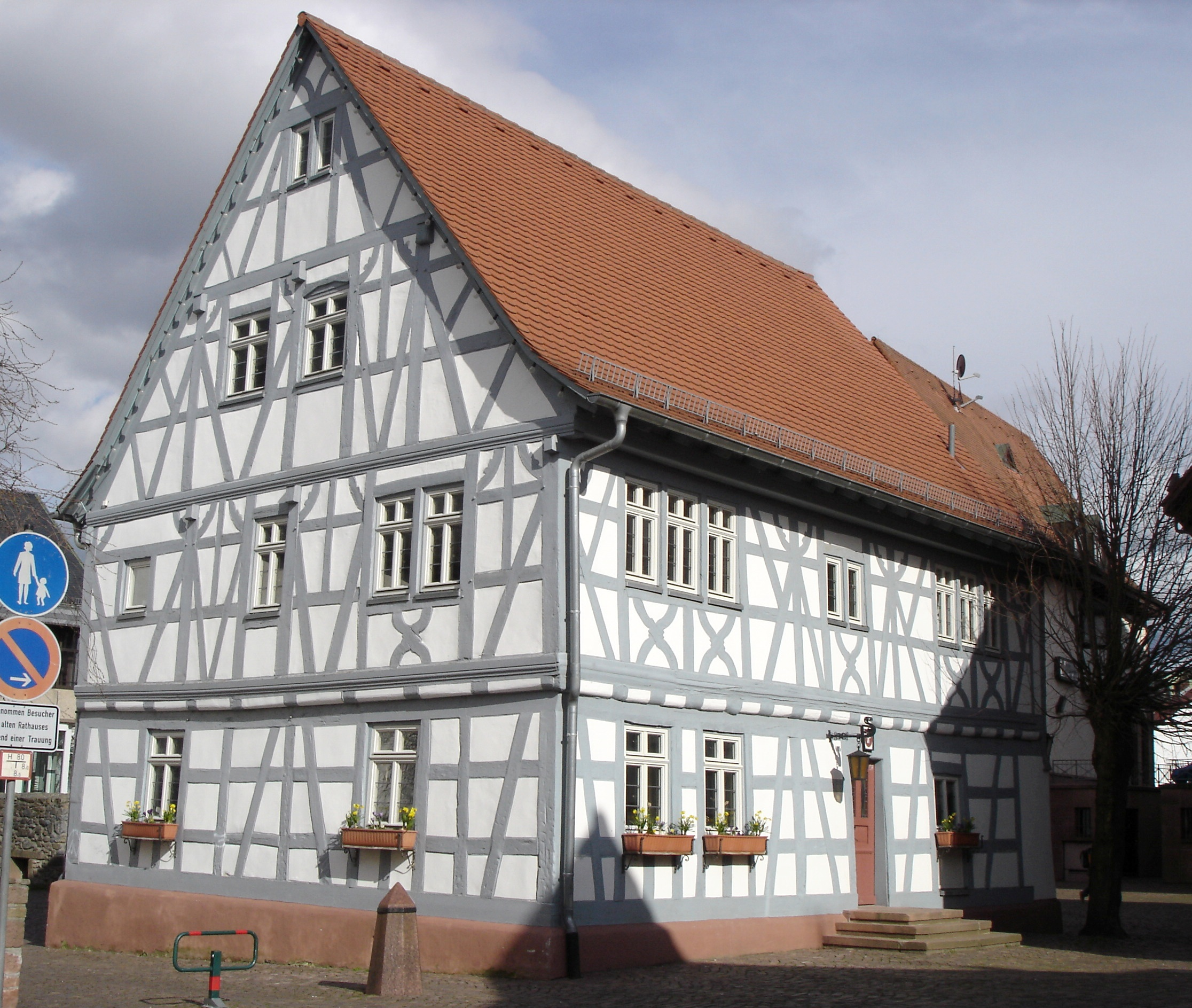 Old townhall in Mörlenbach/Germany